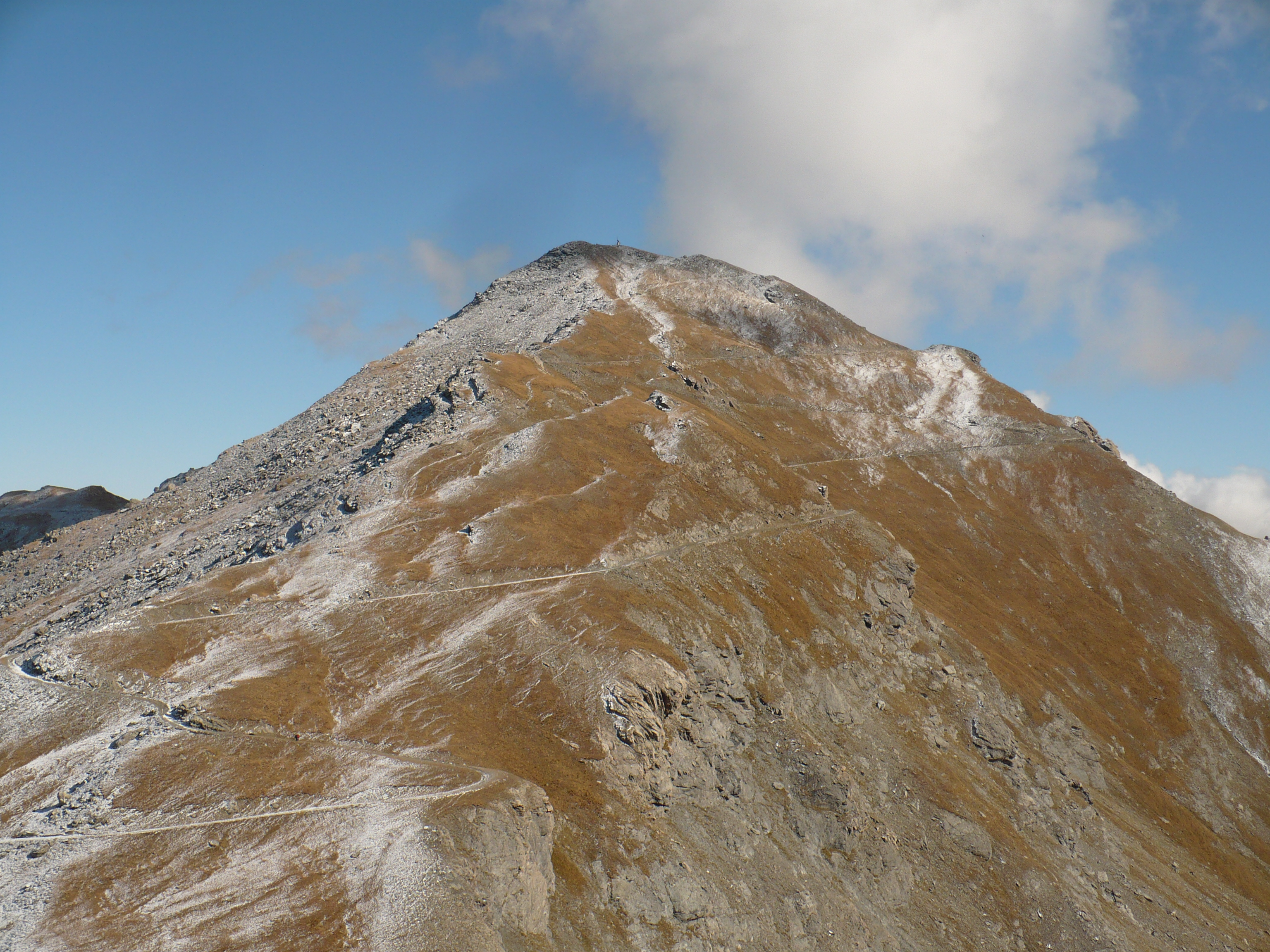 Cima Ciantiplagna - Cottian Alps - Val Chisone - Province of Turin - Italy